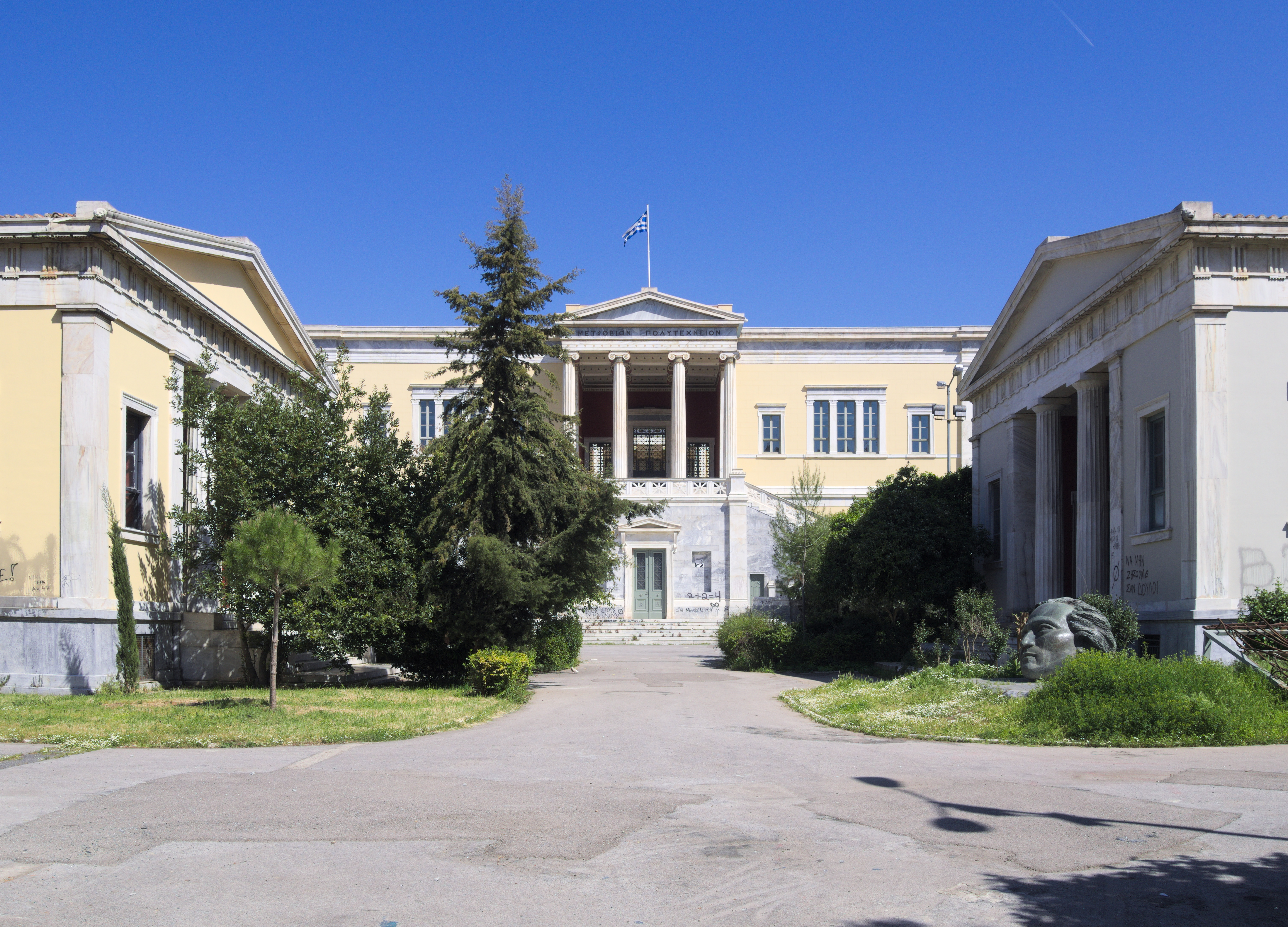 The facade of Averof Building on the National Technical University of Athens, as seen from its entrance.